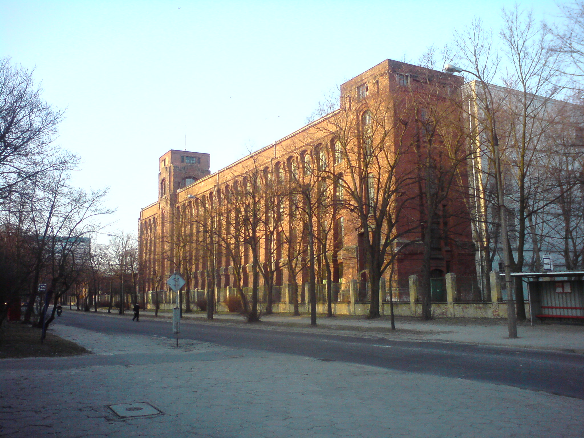 Niciarniana str. in Łódź, Poland view from the park entrance